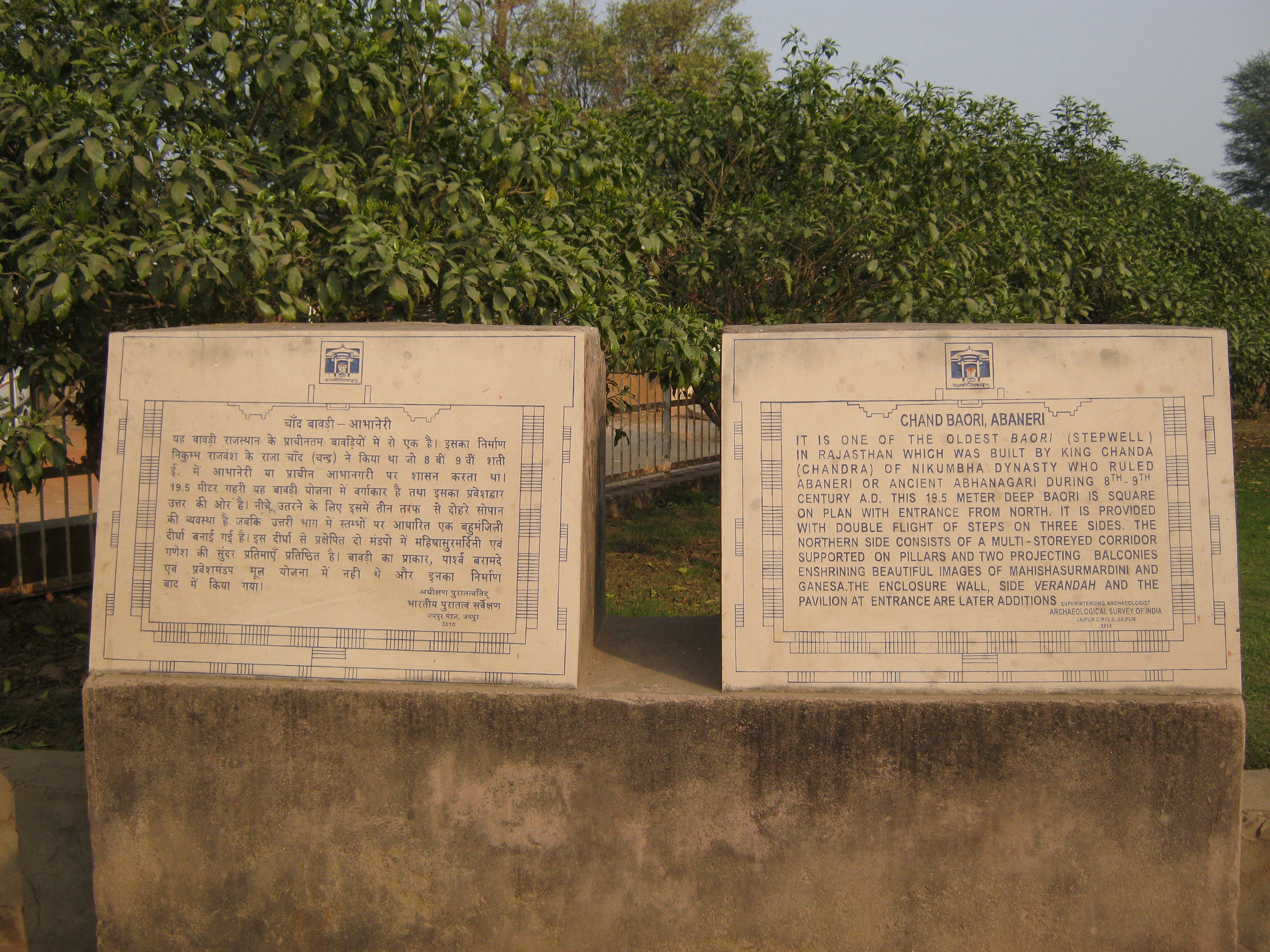 About Chand Baori